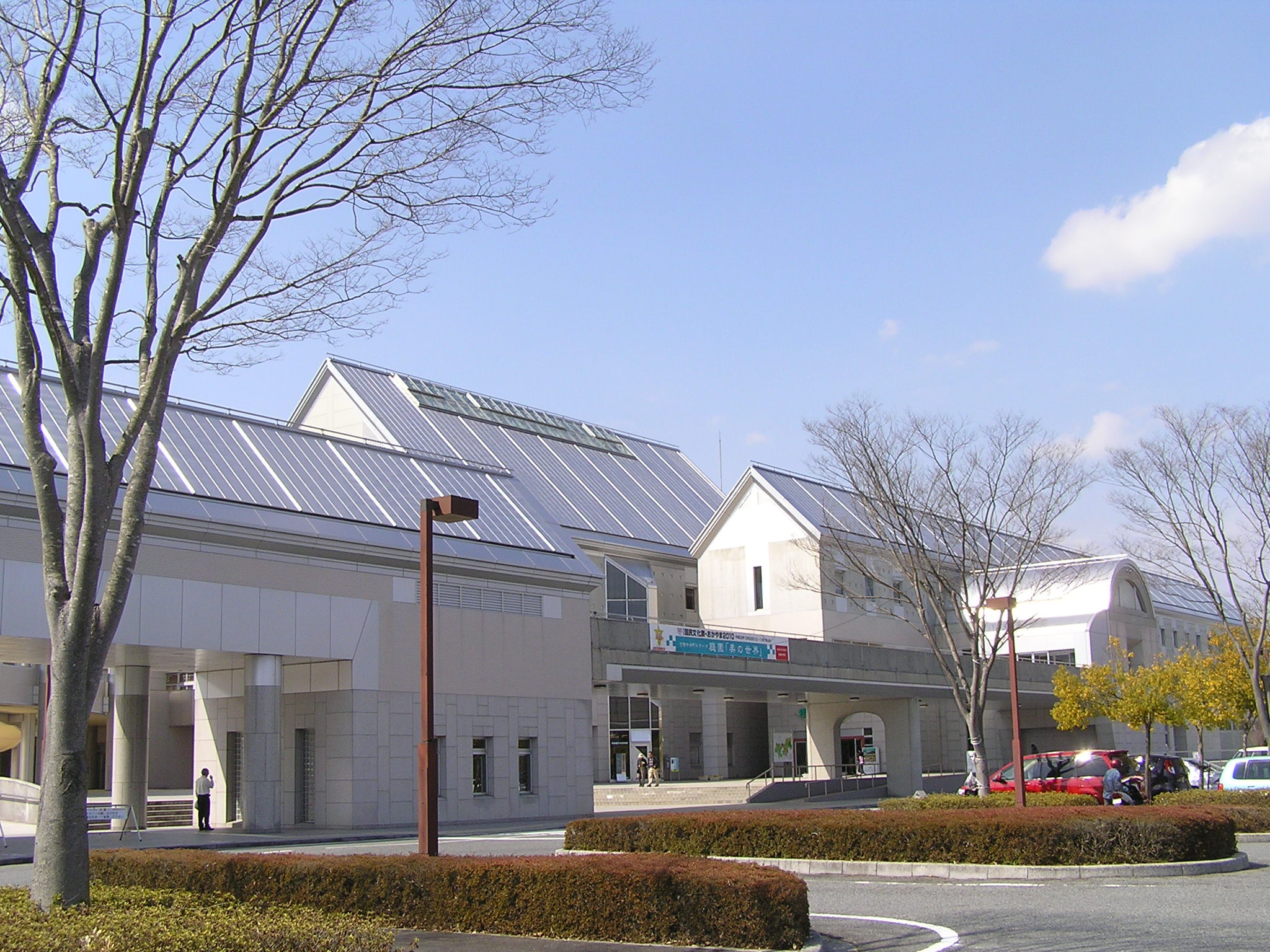 Kibi plaza in Kibi plateau city